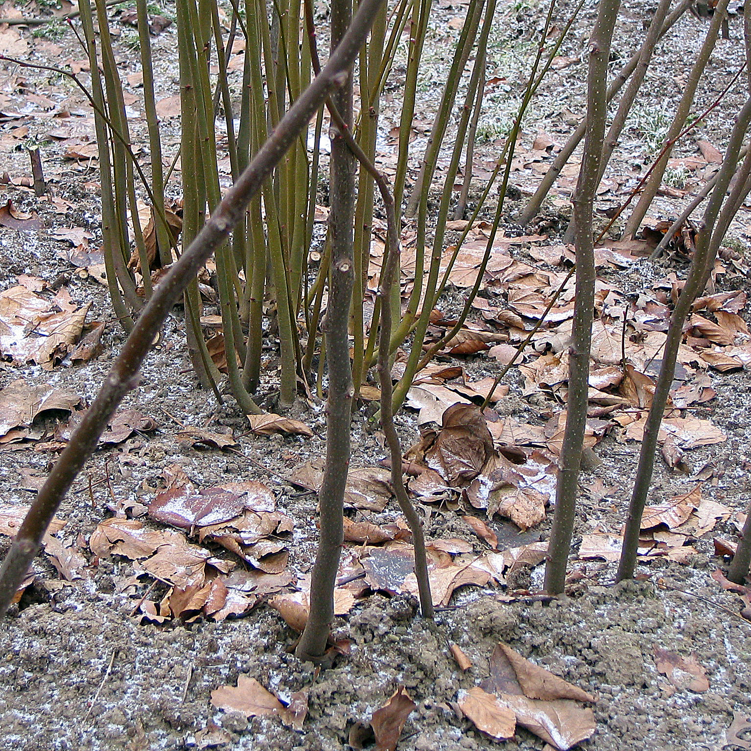 Tilia europaea 'Pallida tip Lappen' Layering